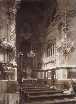 St Stephen's Chapel in the Royal Castle of Budapest.